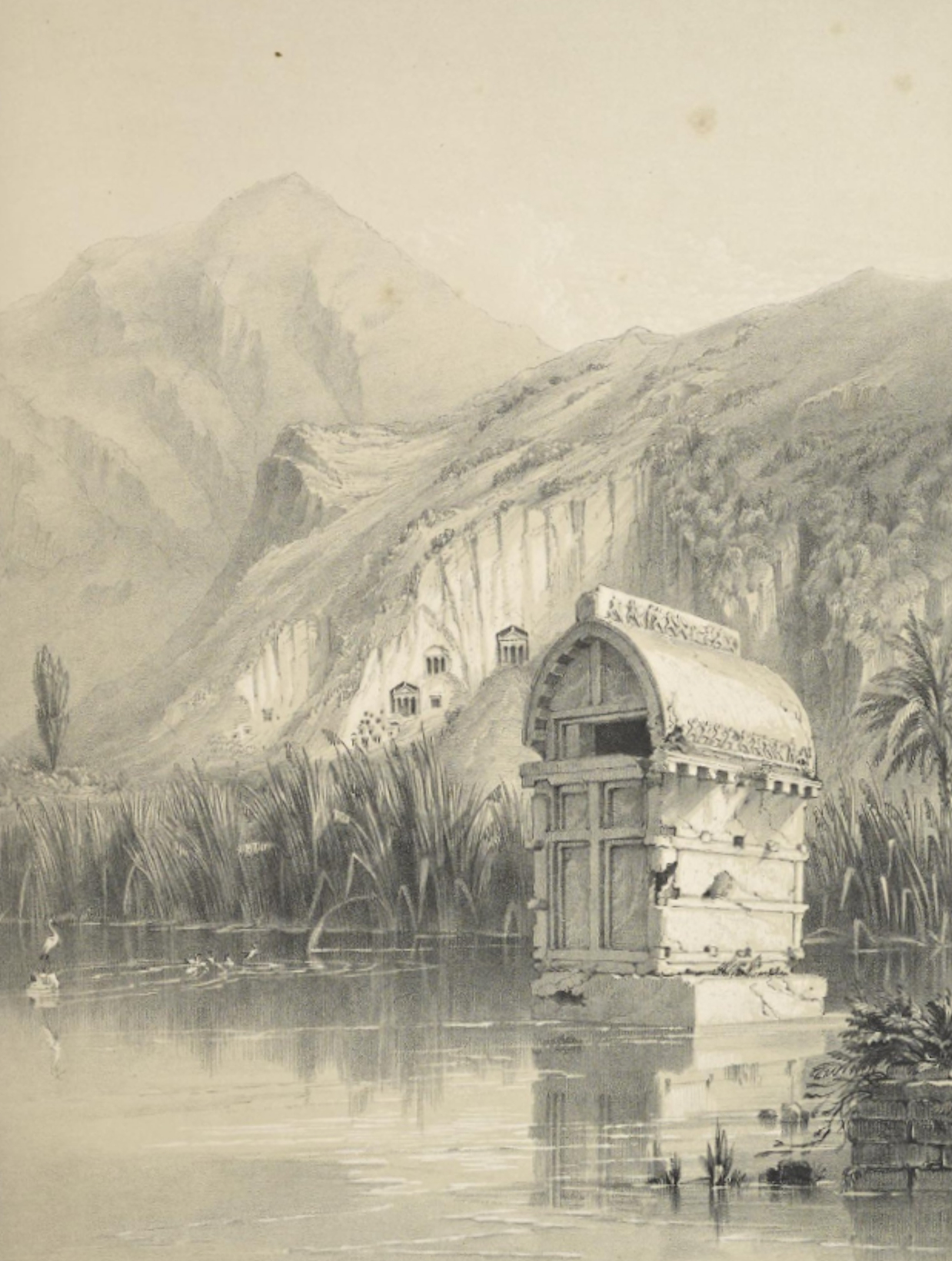 Lycian sarcophagus in ancient Telmessos watercolor